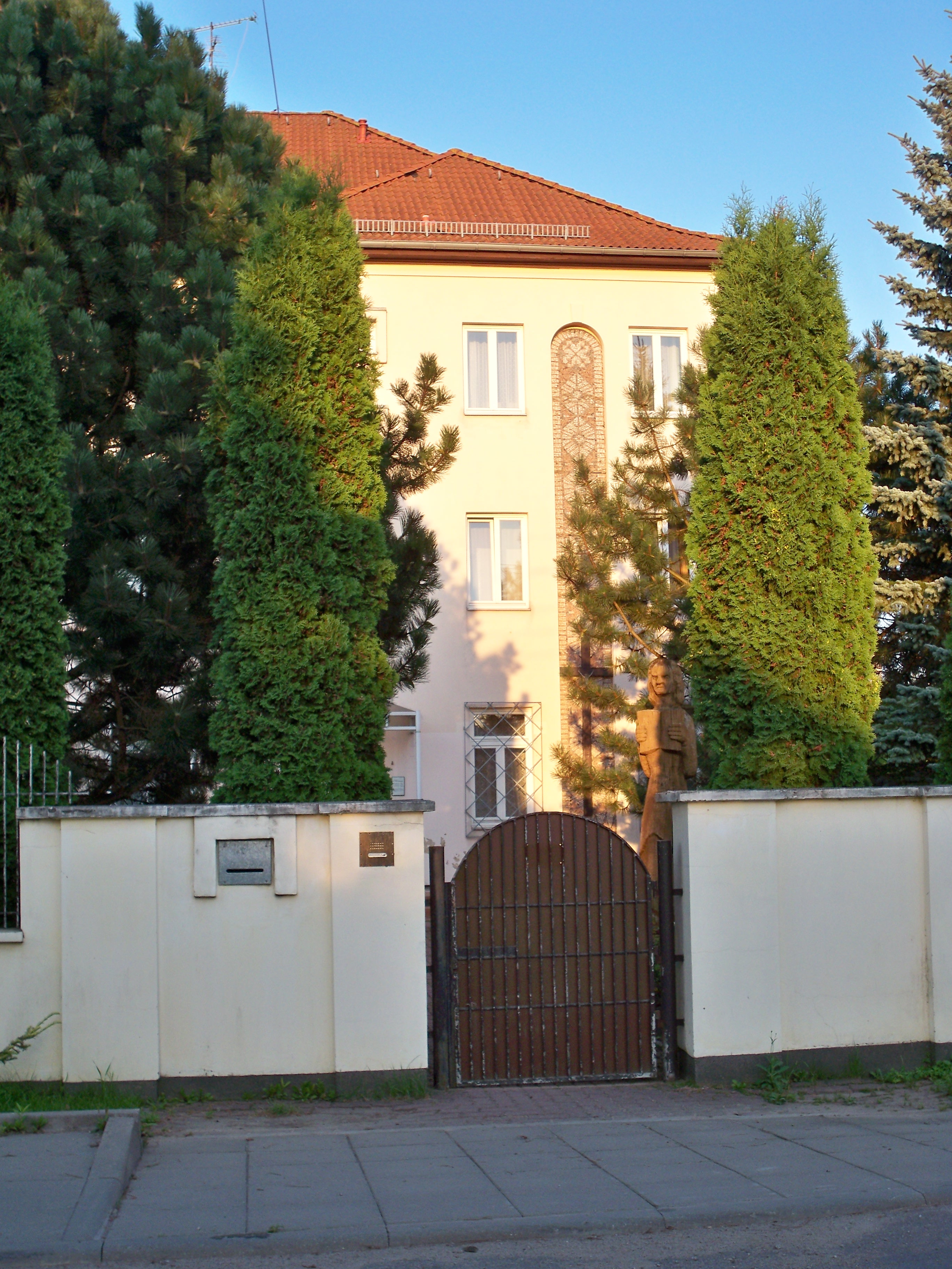 Freda monastery.